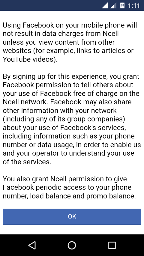 Ncell terms and conditions for free facebook in nepal